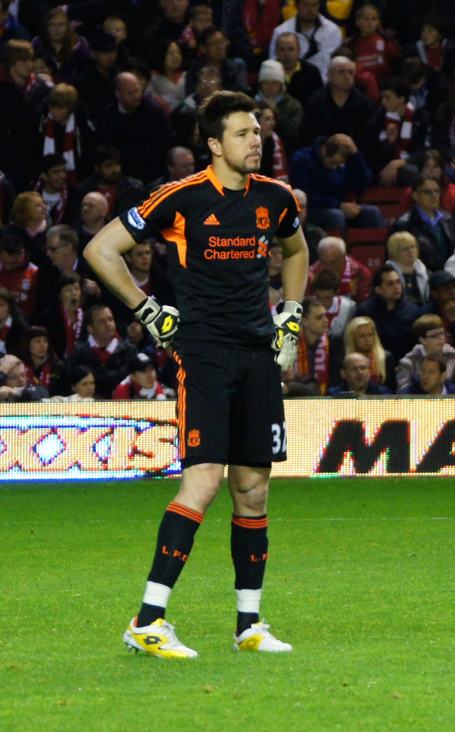 Doni playing for Liverpool against Fulham, 01/05/2012